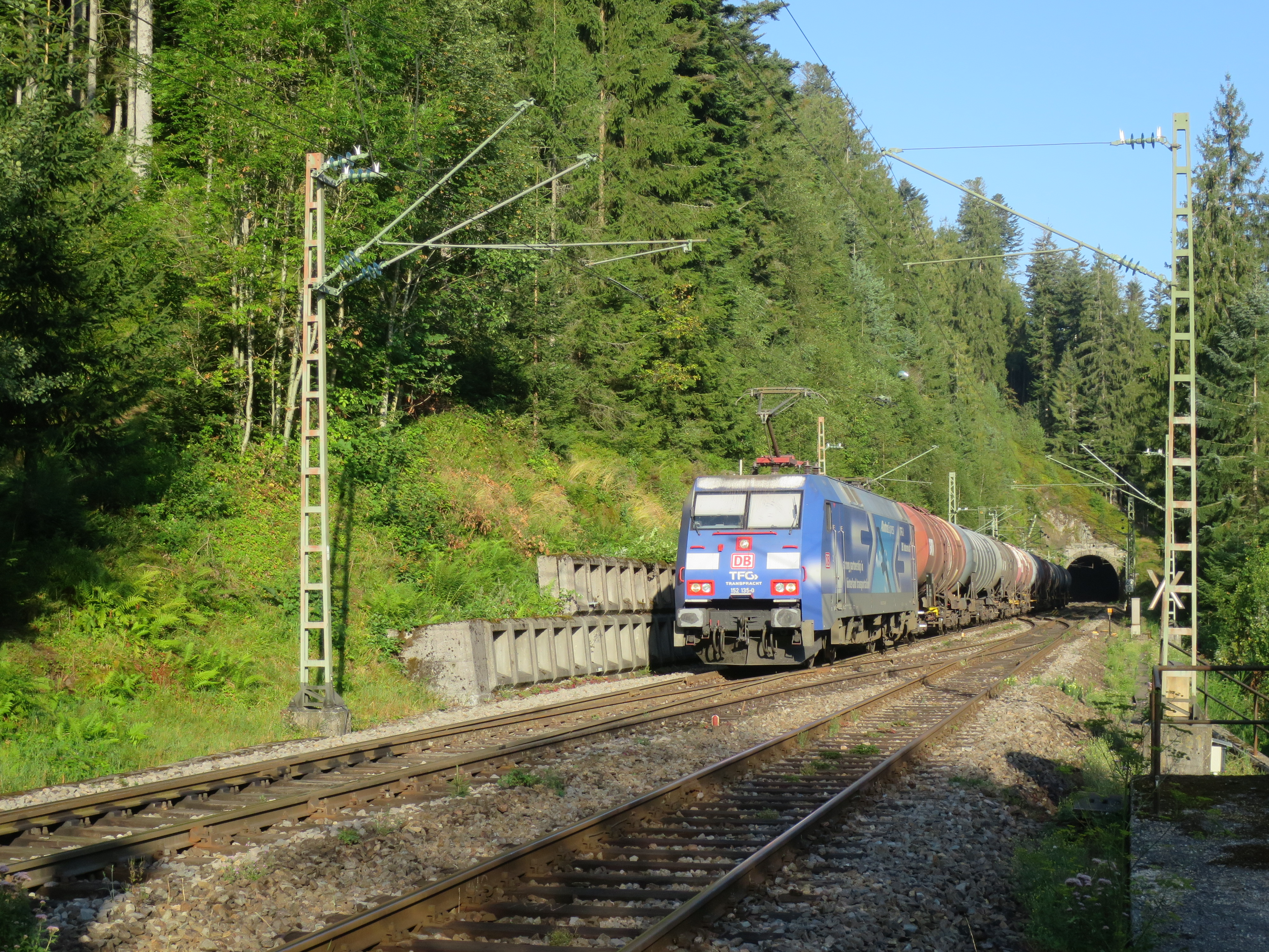 Cargo Train on Schwarzwaldbahn